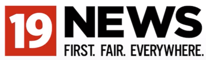 logo for 19 News (WOIO/WUAB Cleveland)